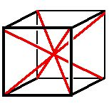 Laban choreutics space harmony diagonals cube